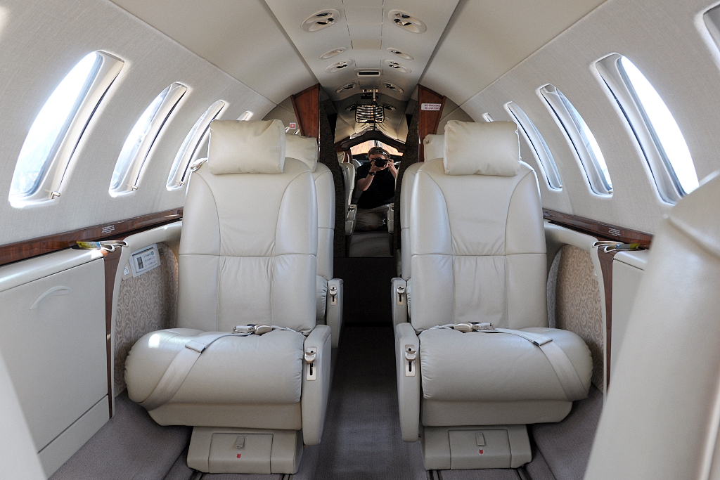 Cabin of Cessna 525B CitationJet 3